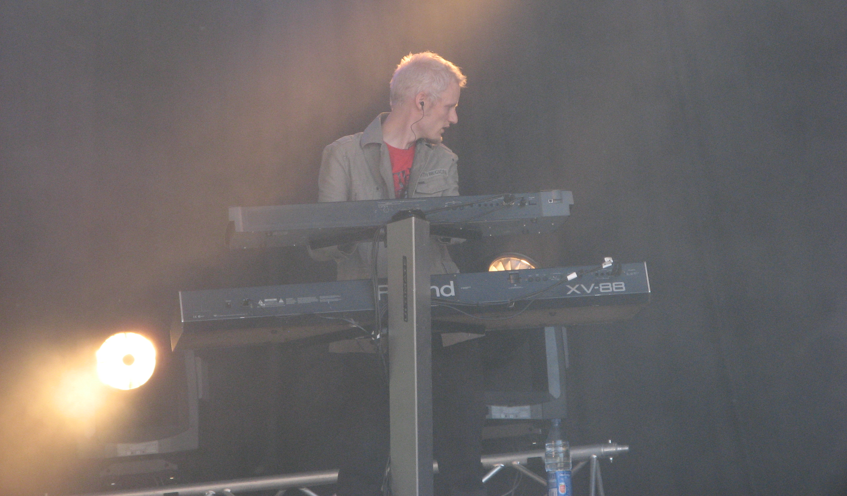 Martijn Westerholt of Delain on Westerpop 2007.